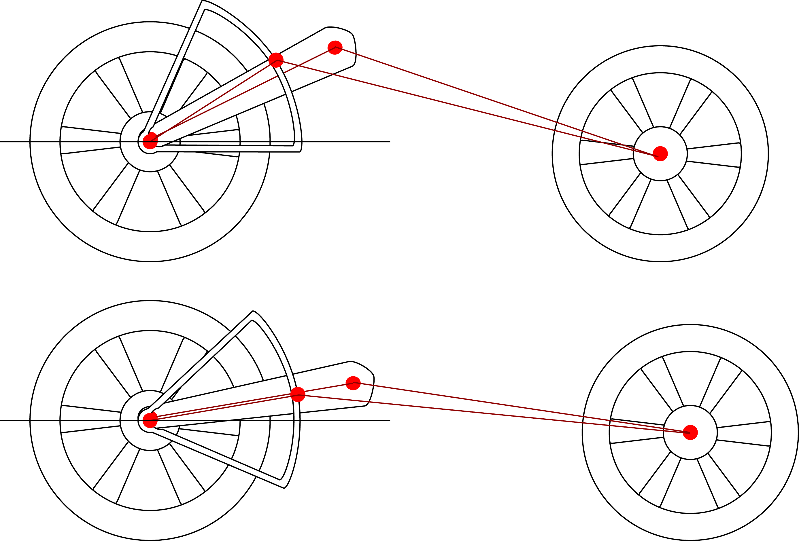 A visual depiction of the "Tucking Under" effect of motorcycle acceleration on a softail and a drive shaft. Shows that the relative effect of a drive shaft versus a softail is negligible.